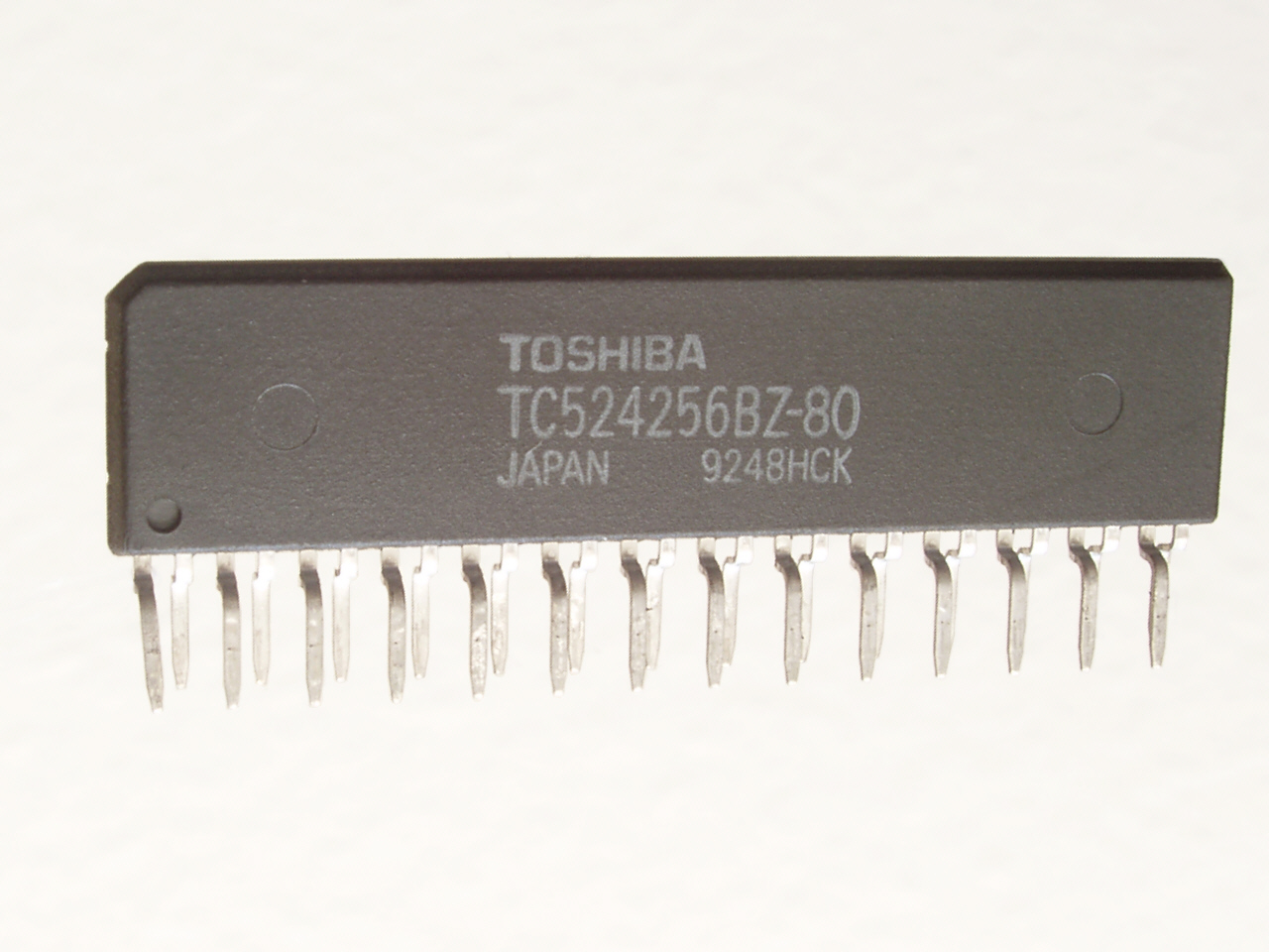 ZIP Package, 28 Pins, Toshiba VideoDRAM 524256, 1992